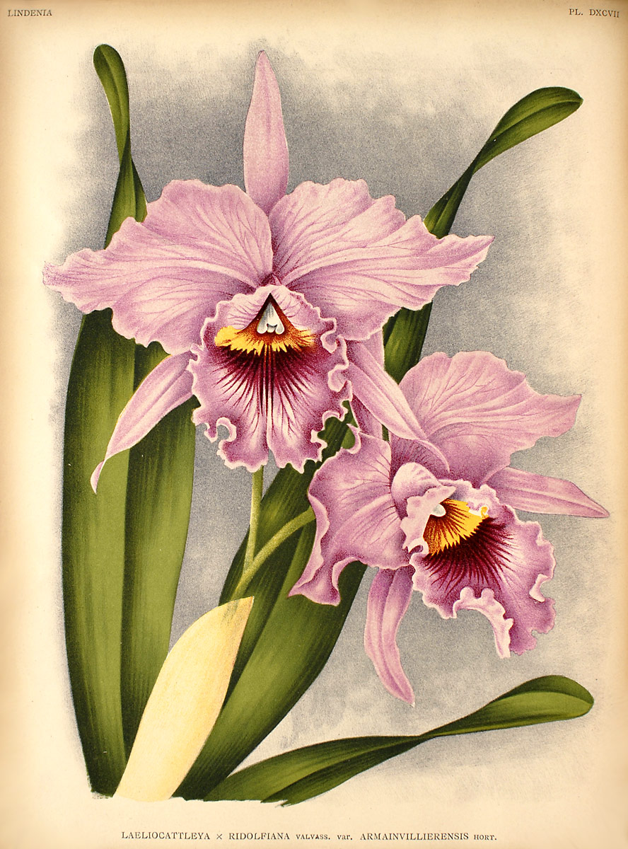 Laeliocattleya × Ridolfiana